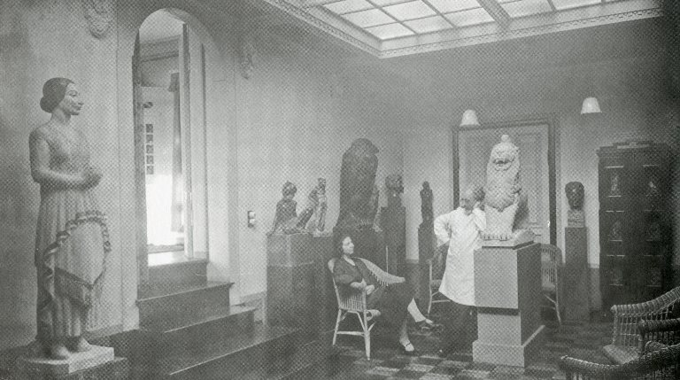 Danish sculptor Siegfried Wagner and one of his daughters in his home Køveborg on Lottenborgvej in Lyngby, Denmark